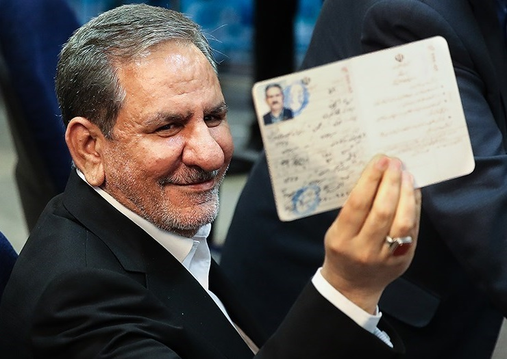 Vice President Eshaq Jahangiri registering at the 2017 Iranian presidential election